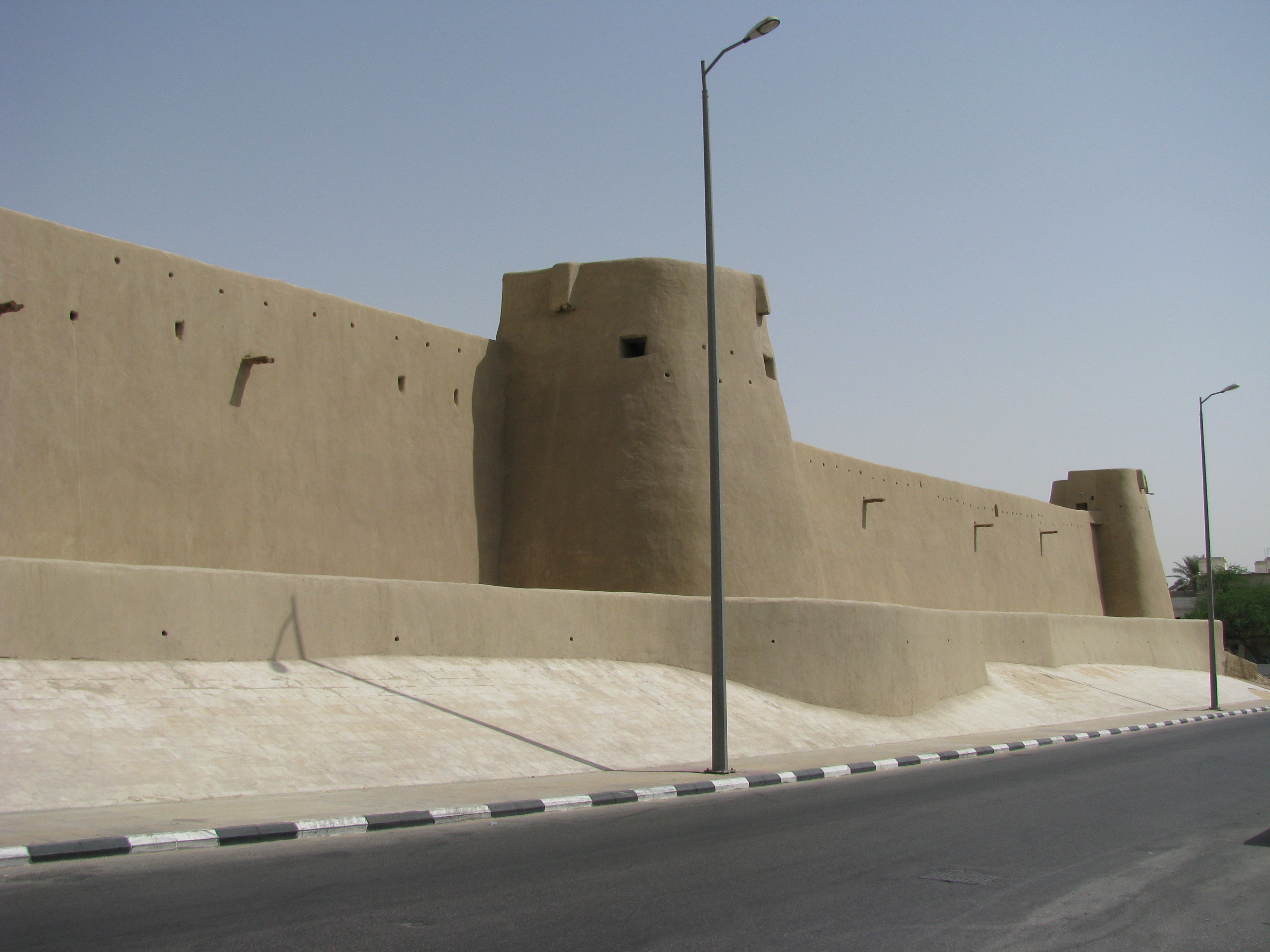 Sahoud Fortress is one of the well-known forts in Hofuf